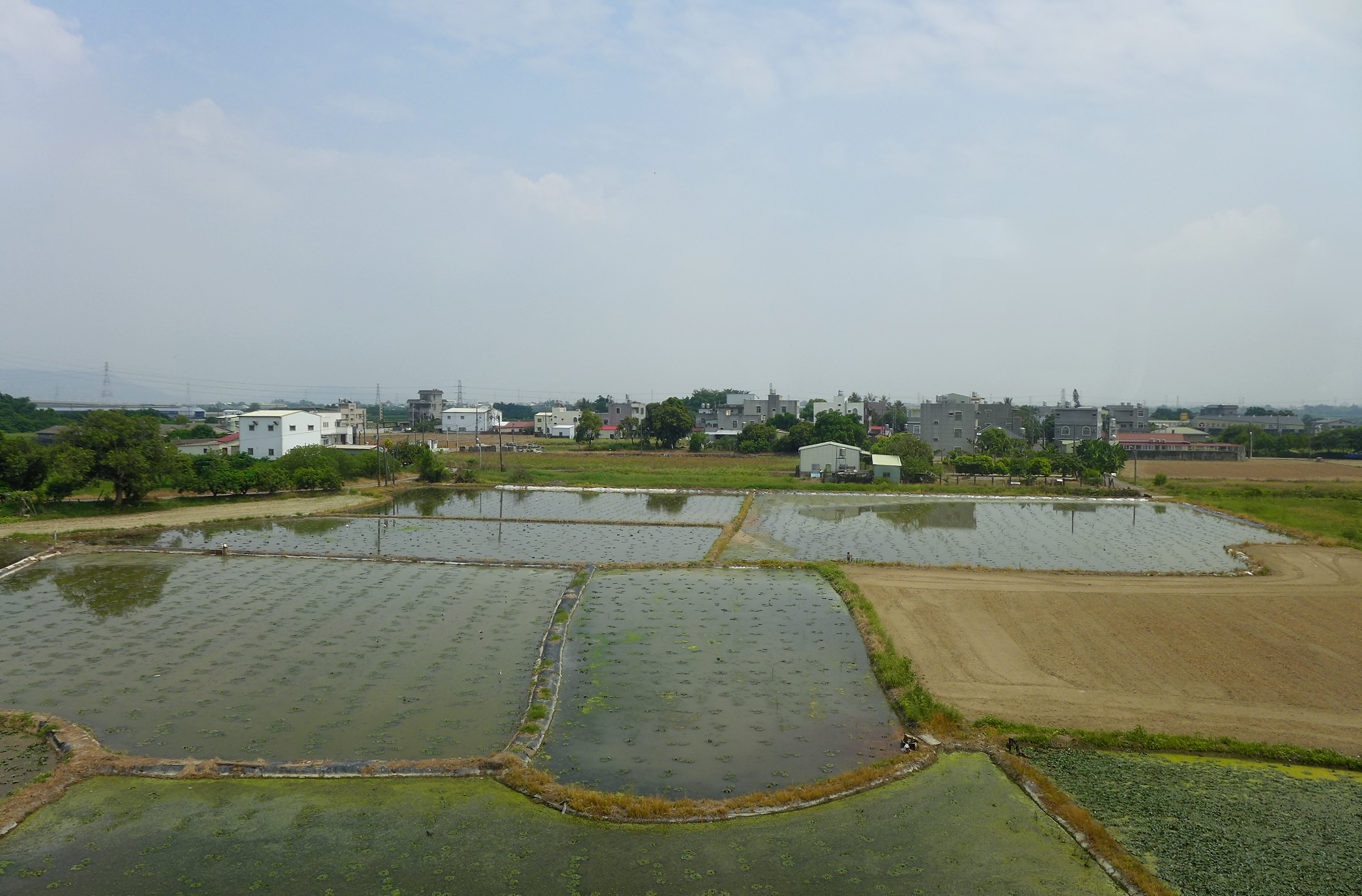 Gueiren District in Tainan